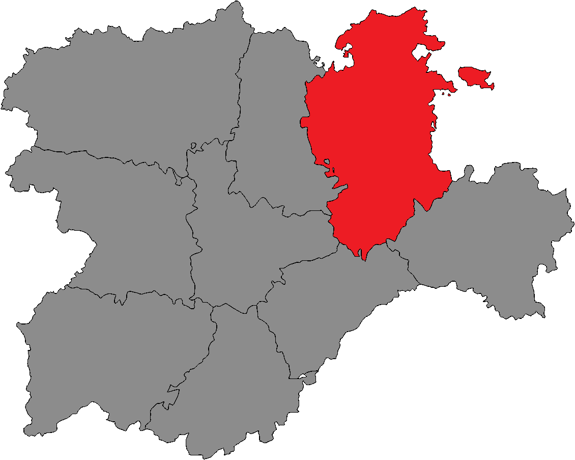 Cortes of Castile and León district of Burgos.